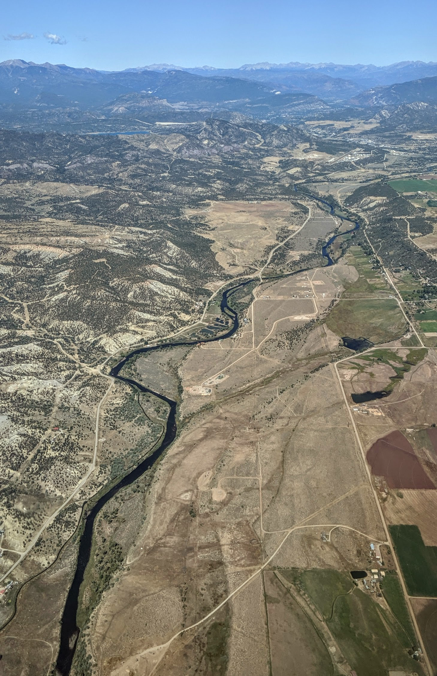 The Animas River coming out of Durango; aerial view from the south, on takeoff from Durango–La Plata County Airport.